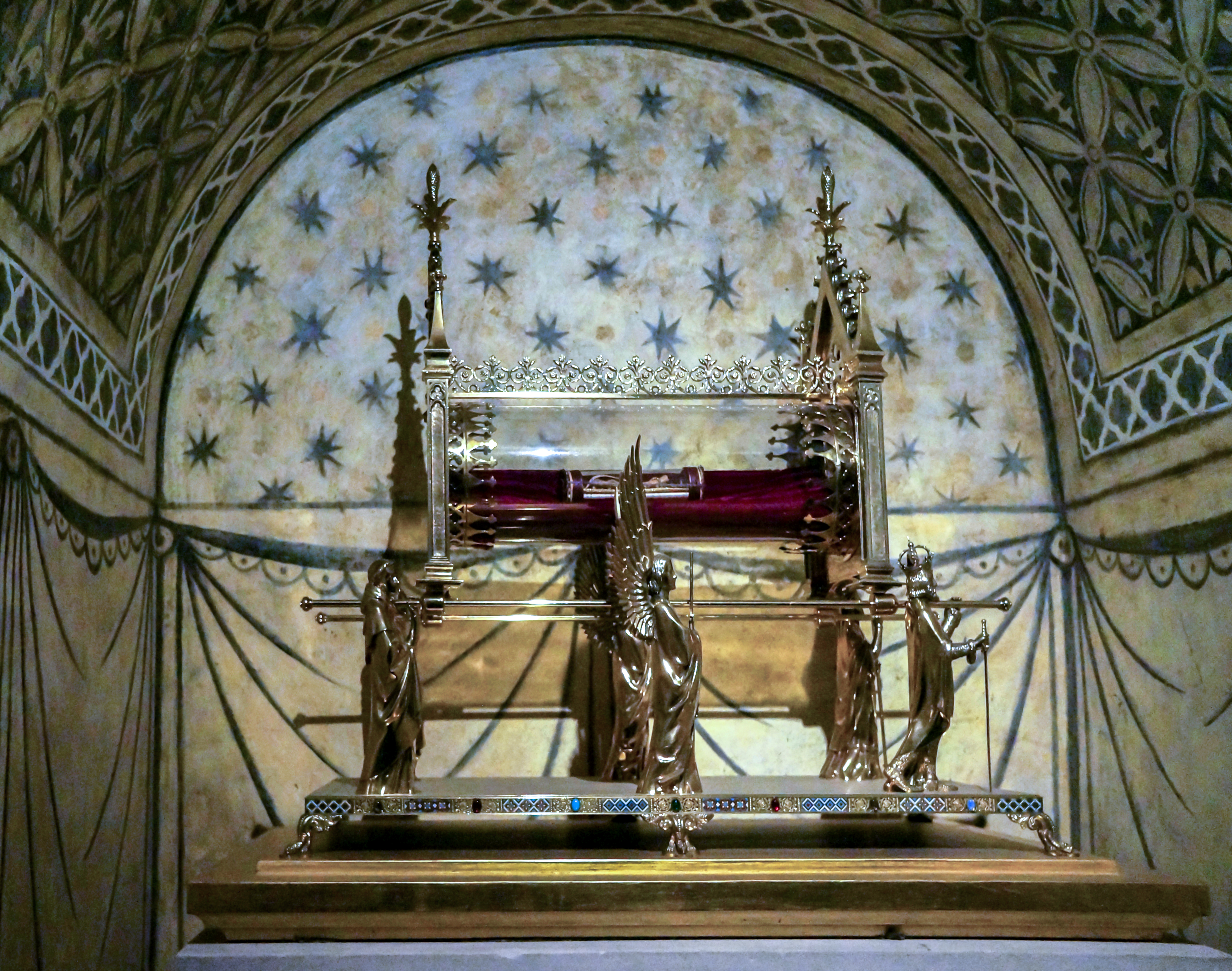 Relic of Saint Mary Magdalene in Crypt of Saint Mary Magdalen's Basilica on Vezelay .